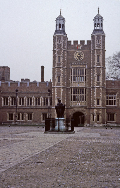 Eton College, Windsor, Berkshire Part of Eton College viewed from the quadrangle.